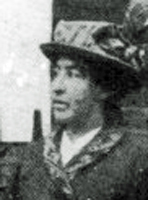 Photo of Julia Scurr, 1914